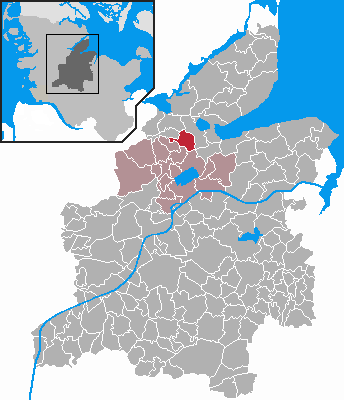 Locator maps of municipalities in Schleswig-Holstein - District Rendsburg-Eckernförde